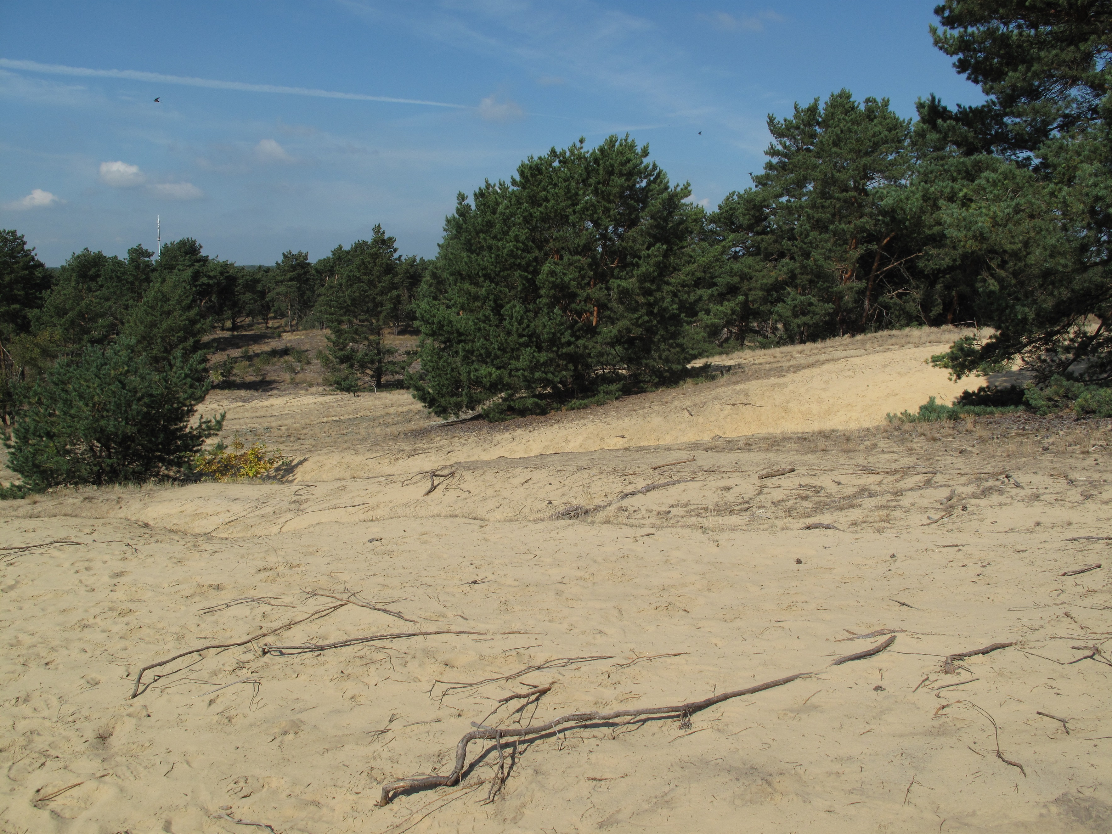 The „Binnendüne Waltersberge“ is one of the largest inland dunes in Brandenburg, Germany. The dune is situated in the town Storkow, District Oder-Spree, just over the eastern border of the Dahme-Heideseen Nature Park. The centre of the area, which covers about 14 hectare, is designated as a Naturschutzgebiet (protected area) and Natura 2000-area. Nearly just beside the northern bank of the Großer Storkower See (lake), rises above the dune with its largest peak, the Storkower Weinberg (69 metres), up to 32 metres over the sea.